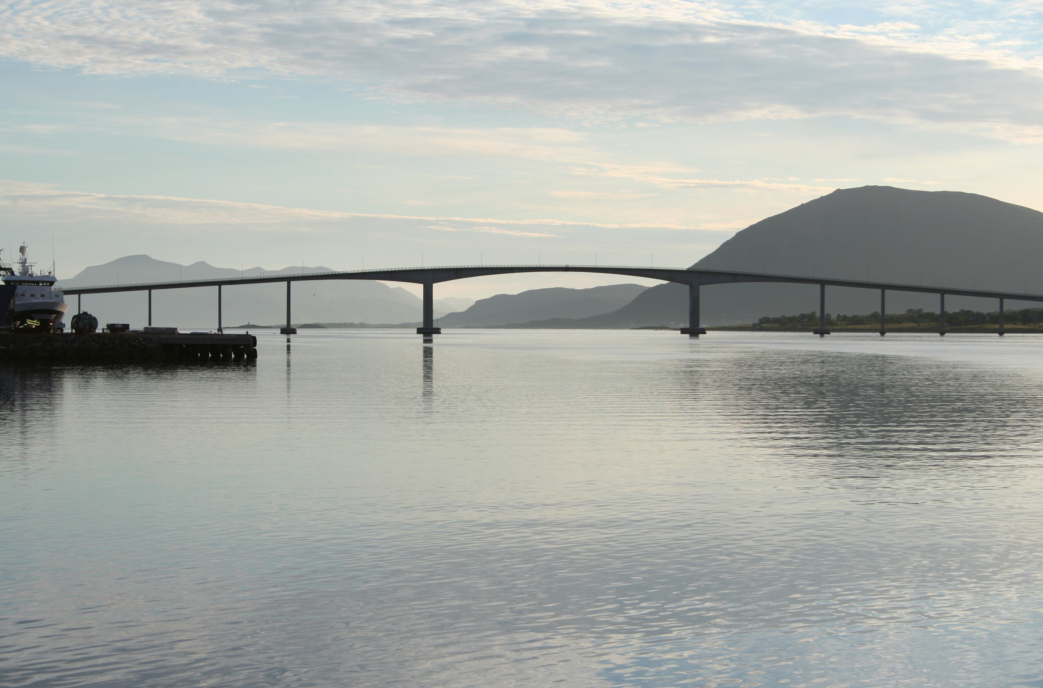 The Sortland Bridge in Norway in early morning light. This picture was taken by me on 22 July 2006.